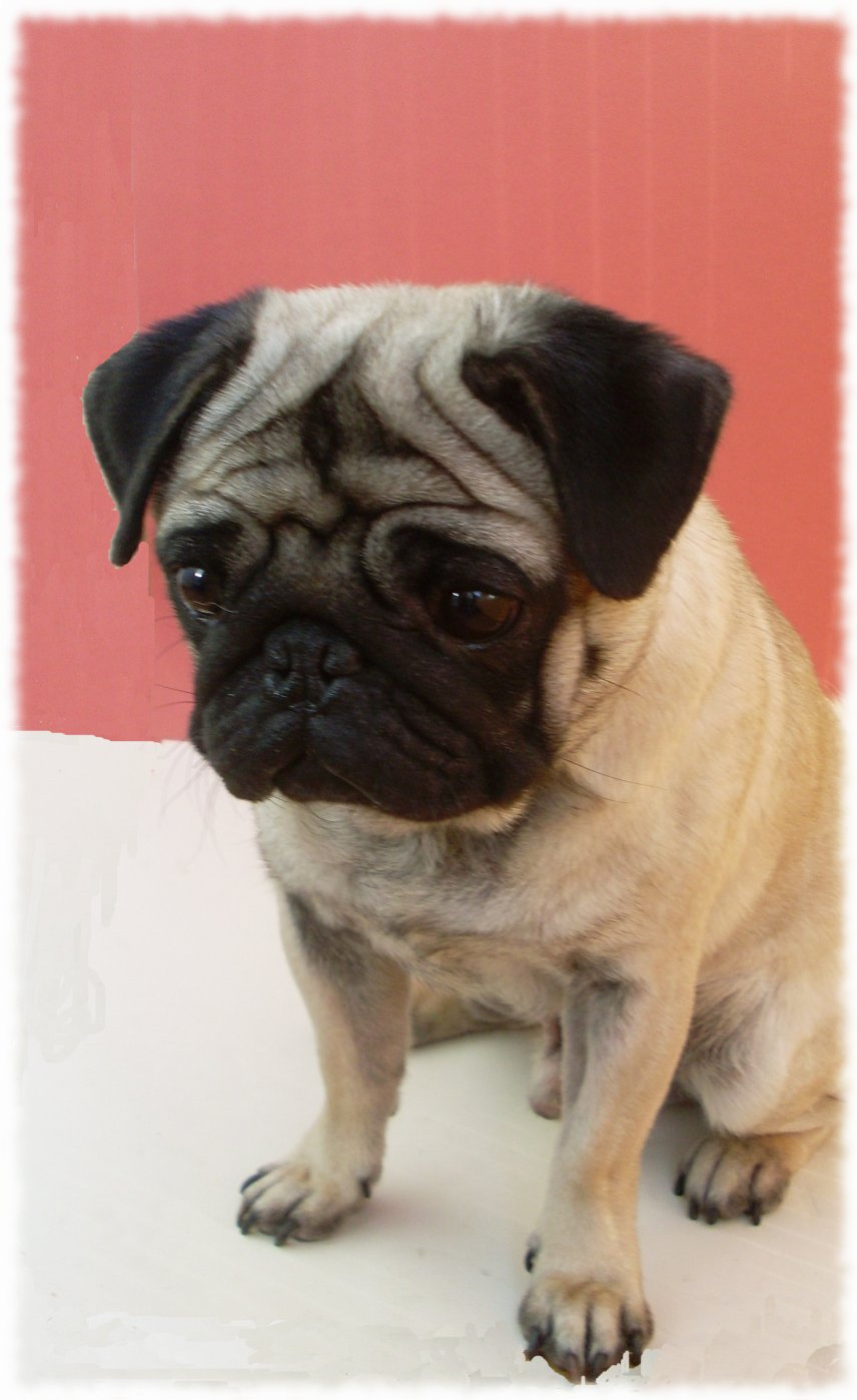 Pug